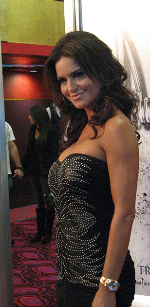 Betsy Russell (Jill Tuck) attending the Saw 3D premiere at the Mann's Chinese 6 theater in Hollywood, CA .